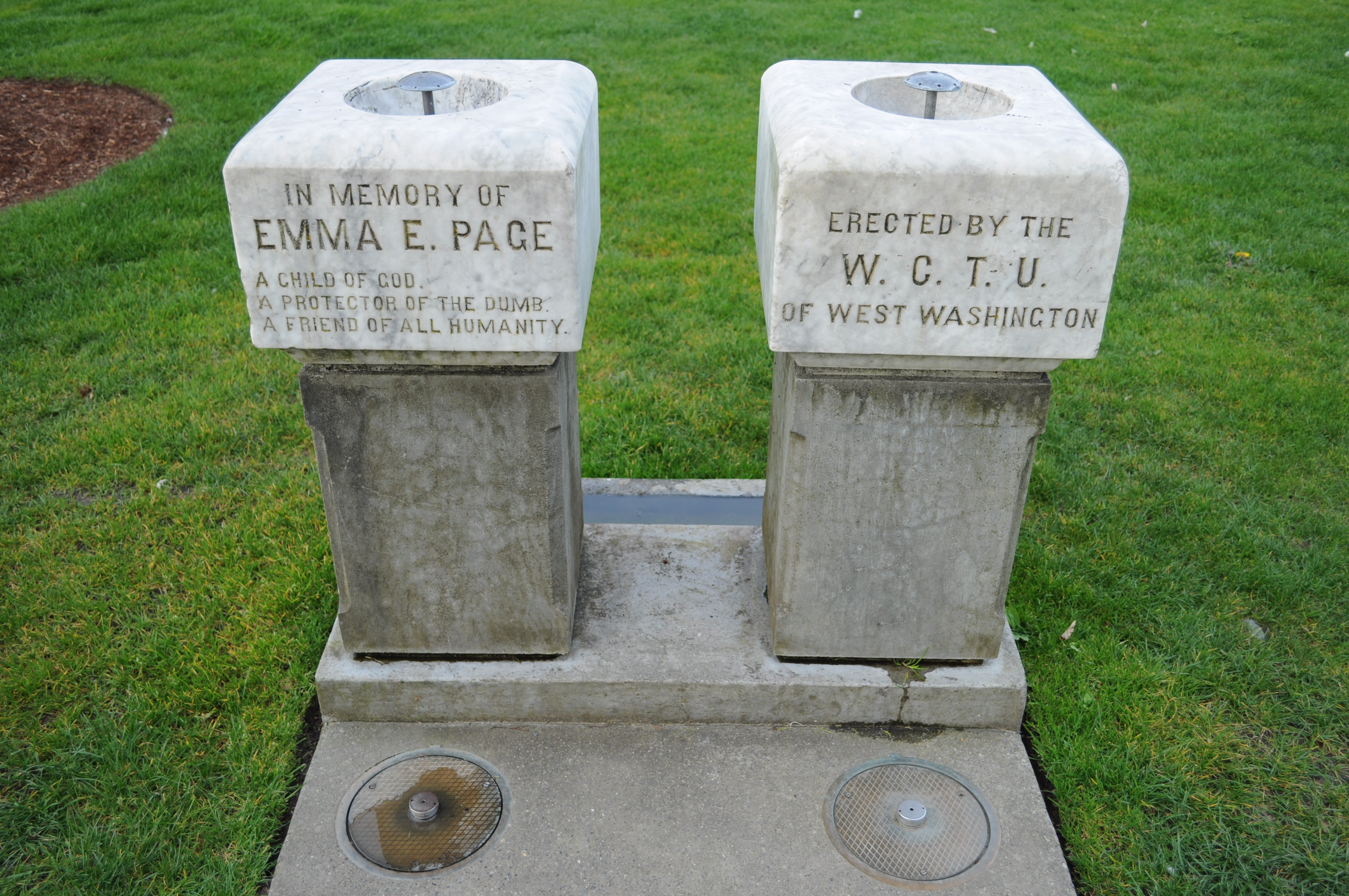 Emma Page fountains, Sylvester Park, Olympia, Washington. Page, who was blind, was a WCTU lecturer, and also concerned with animal welfare. The park is listed on the National Register of Historic Places.